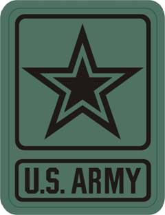 Headquarters, United States Army shoulder sleeve insignia